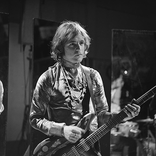 Jack Bruce (Cream) performing on the Dutch television program Fanclub in January, 1968